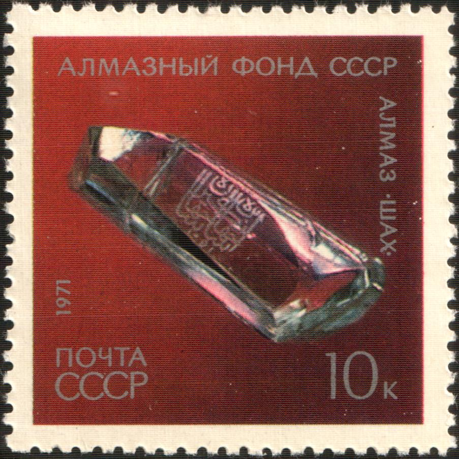 USSR stamp: The Shah Diamond, 16th Century. Series: Diamond Fund